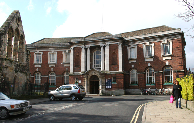 York Central Library. Located in Museum Street. See another view 678234